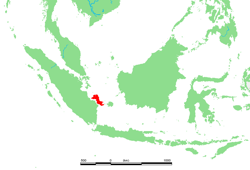 Location of Bangka, Indonesia